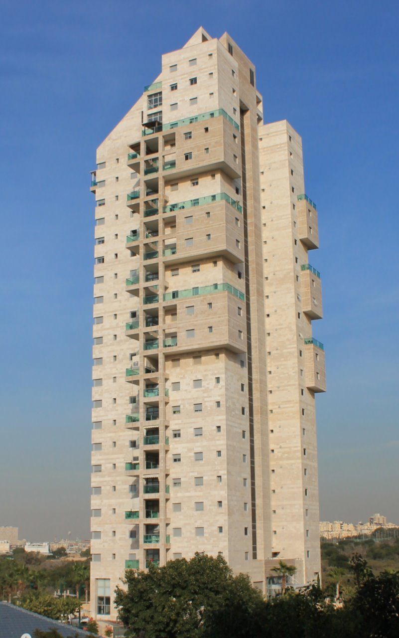 a lot of floors in Rishon Lezion - the prestigious SKY 3 towers